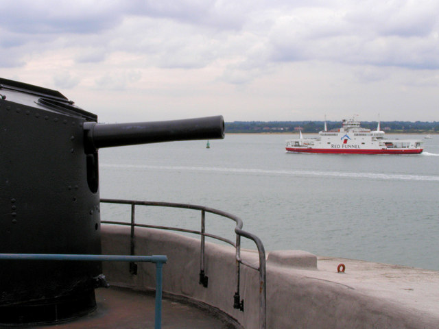 Red Funnel Ferry from Calshot Castle, Hampshire Ferry is en-route to the Isle of Wight. Gun is a 4-inch Breech Loader (26 cwt)